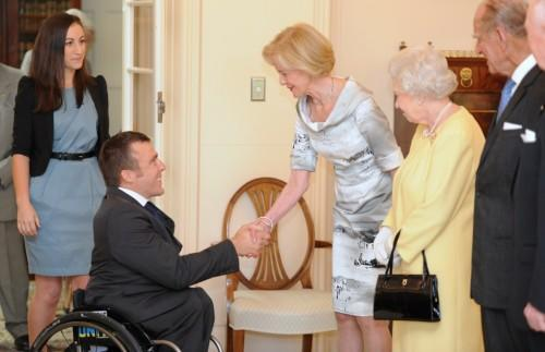 Kurt Fearnley is presented to Quentin Bryce (Governor-General of Australia) and Queen Elizabeth II, alongside Prince Philip, Duke of Edinburgh, at Government House, Canberra.